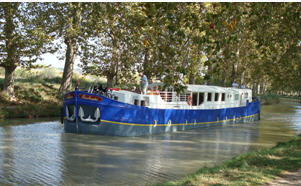 Enchante hotel barge